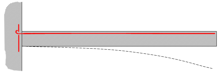 Reinforeced condrete beam scheme